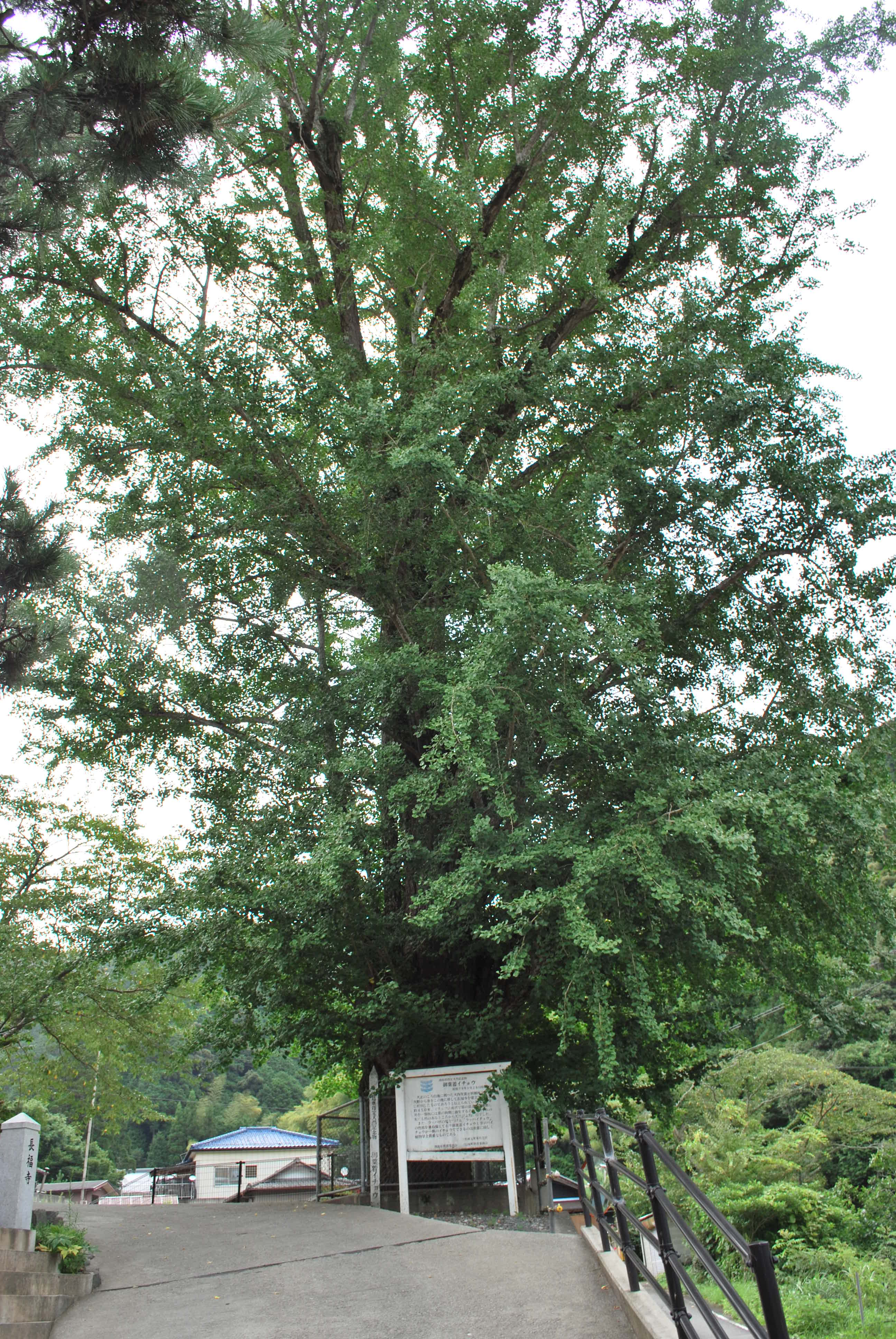 Ginkgo tree, Chōfuku-ji